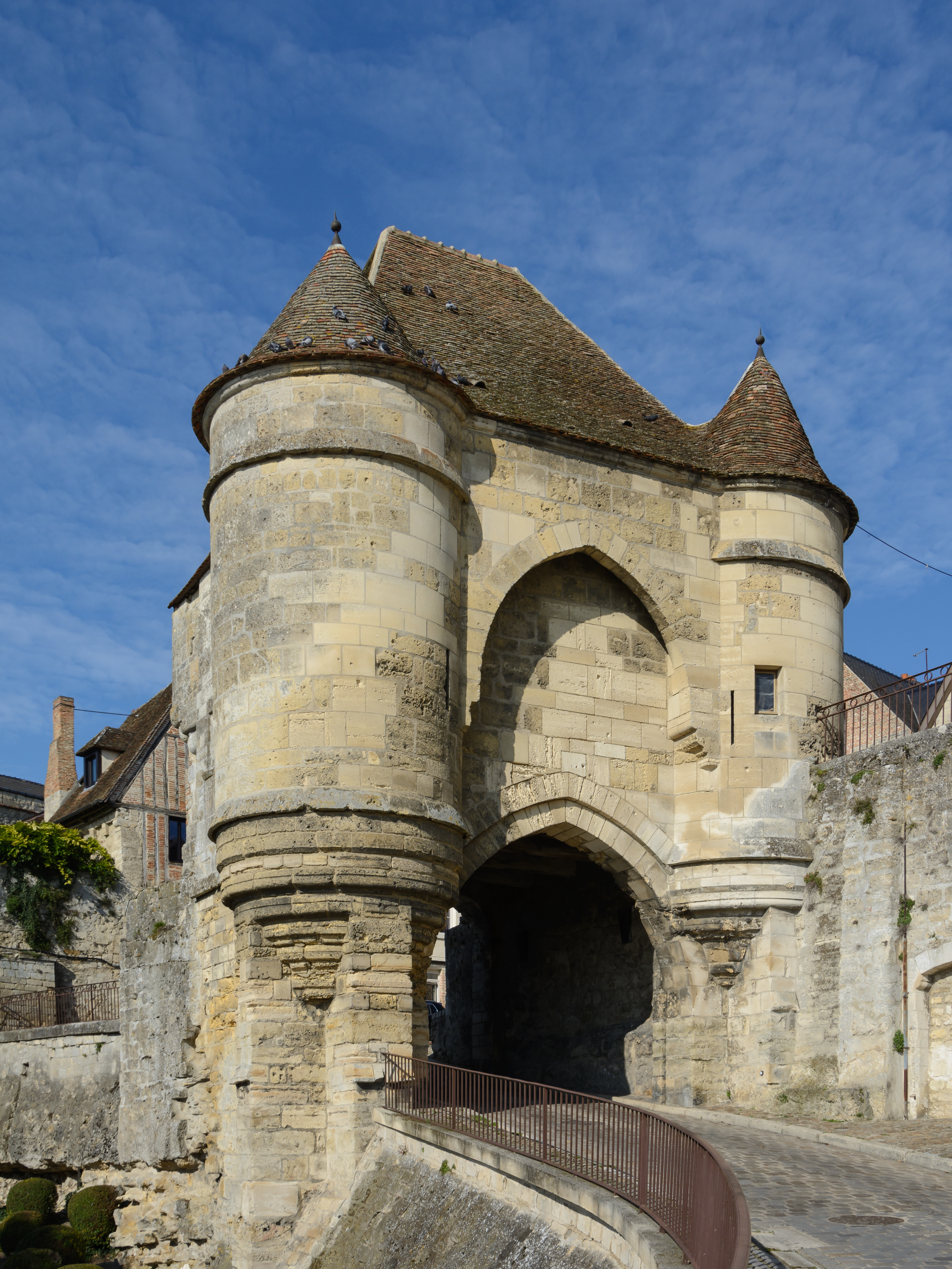 Ardon's Gate (Porte d'Ardon), Laon, Picardy, France